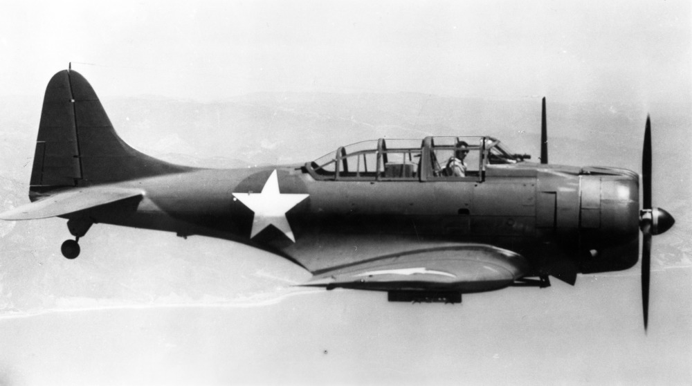 PictionID:40972822 - Title:Banshee Douglas A-24 - Catalog:15_002770 - Filename:15_002770.tif - Image from the Charles Daniels Photo Collection album "US Army Aircraft."----PLEASE TAG this image with any information you know about it, so that we can permanently store this data with the original image file in our Digital Asset Management System.----SOURCE INSTITUTION: San Diego Air and Space Museum Archive